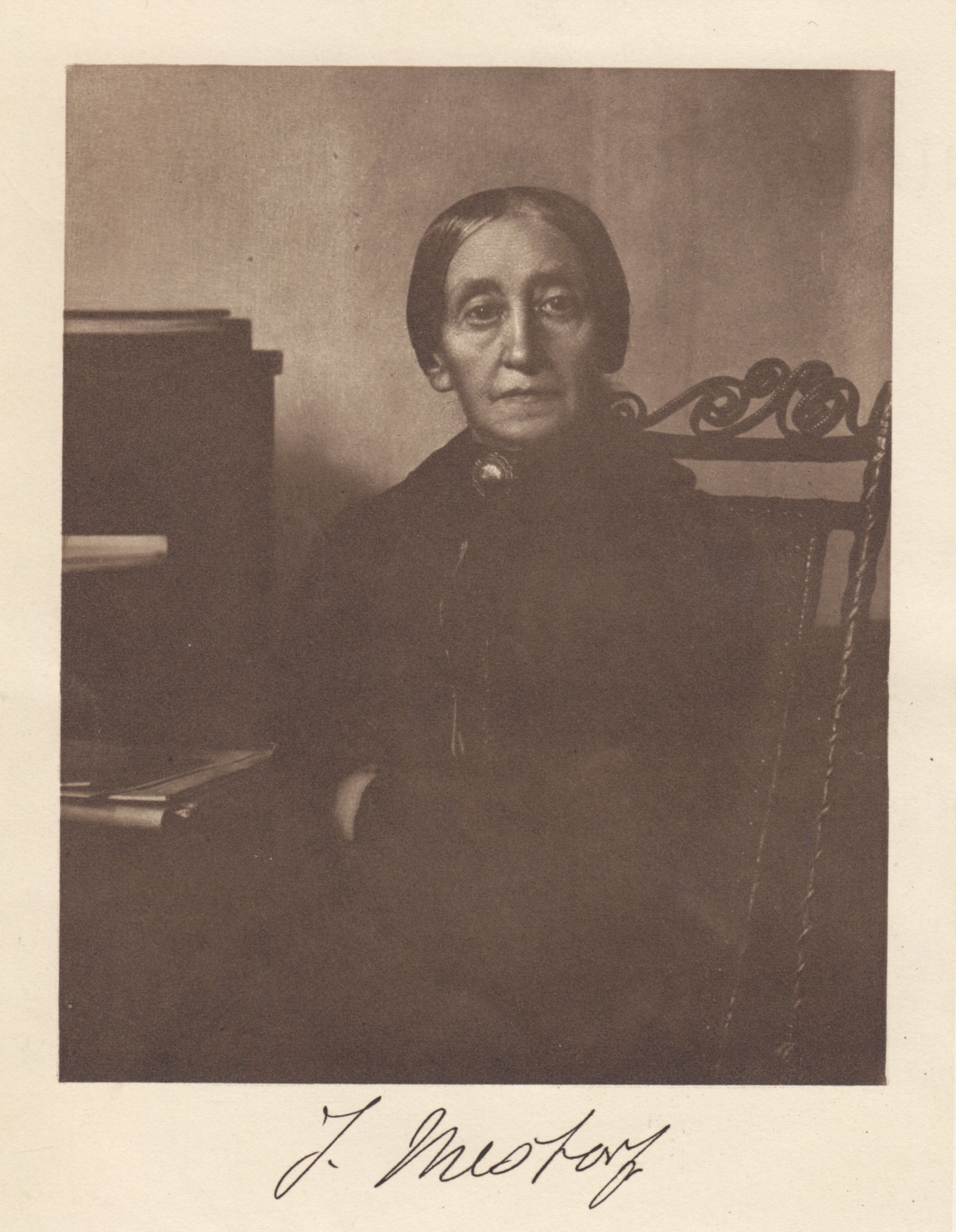 Johanna Mestorf (* April 17th, 1828 in Bramstedt/Holstein, Germany; † July 20th, 1909 in Kiel, Germany) prehistoric archaeologist and first female professor in the Kingdom ot Prussia.